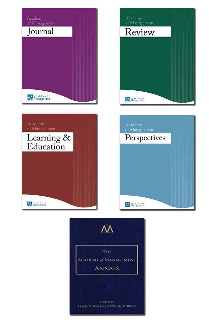 Updated image of current Academy of Management publications